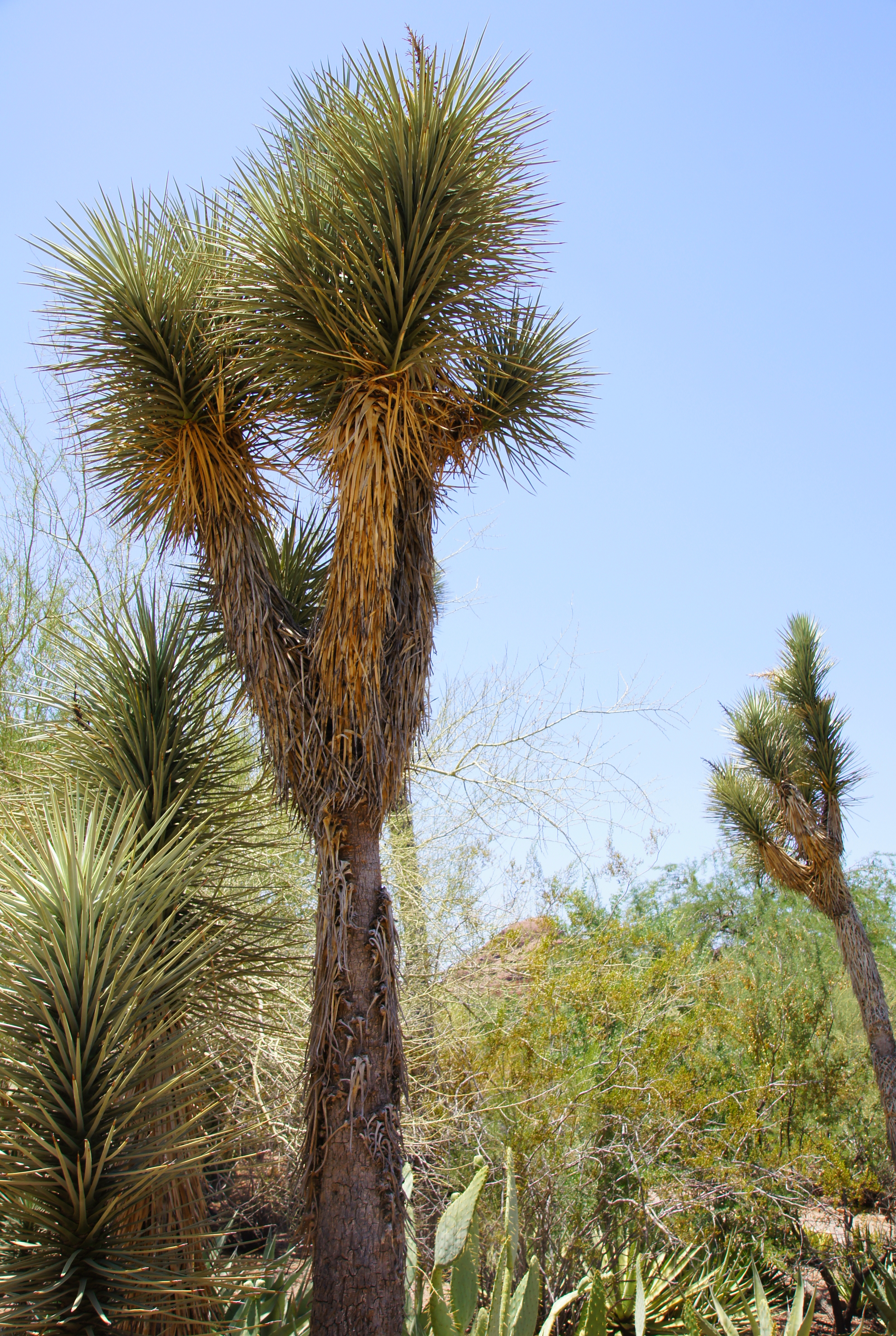 Phoenix, Desert Botanical Garden 043 Palma China (Yucca filifera)